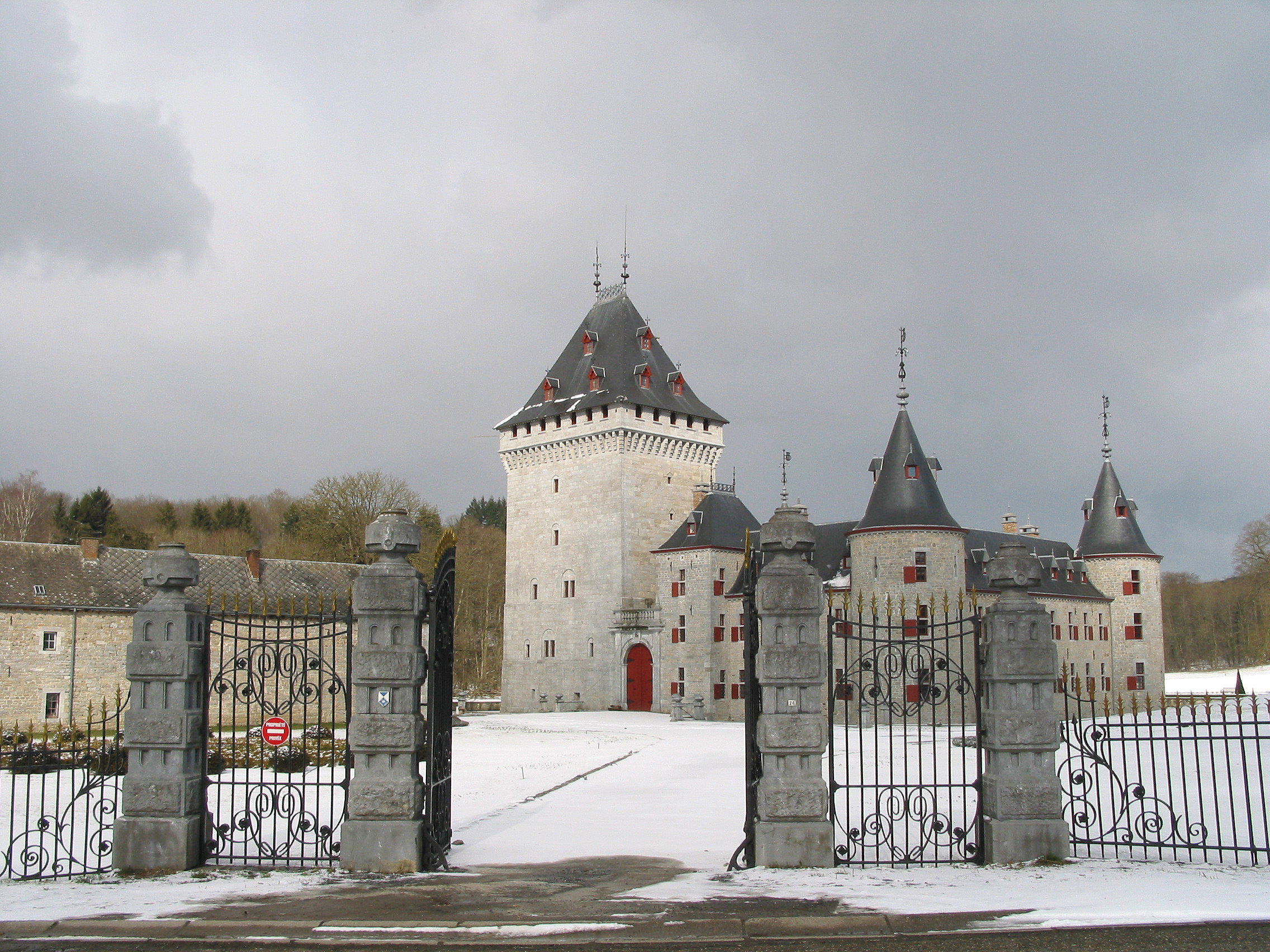 Hargimont (Belgium) : the Jemeppe Castle (XVIth century) and its keep (XIIIth century).